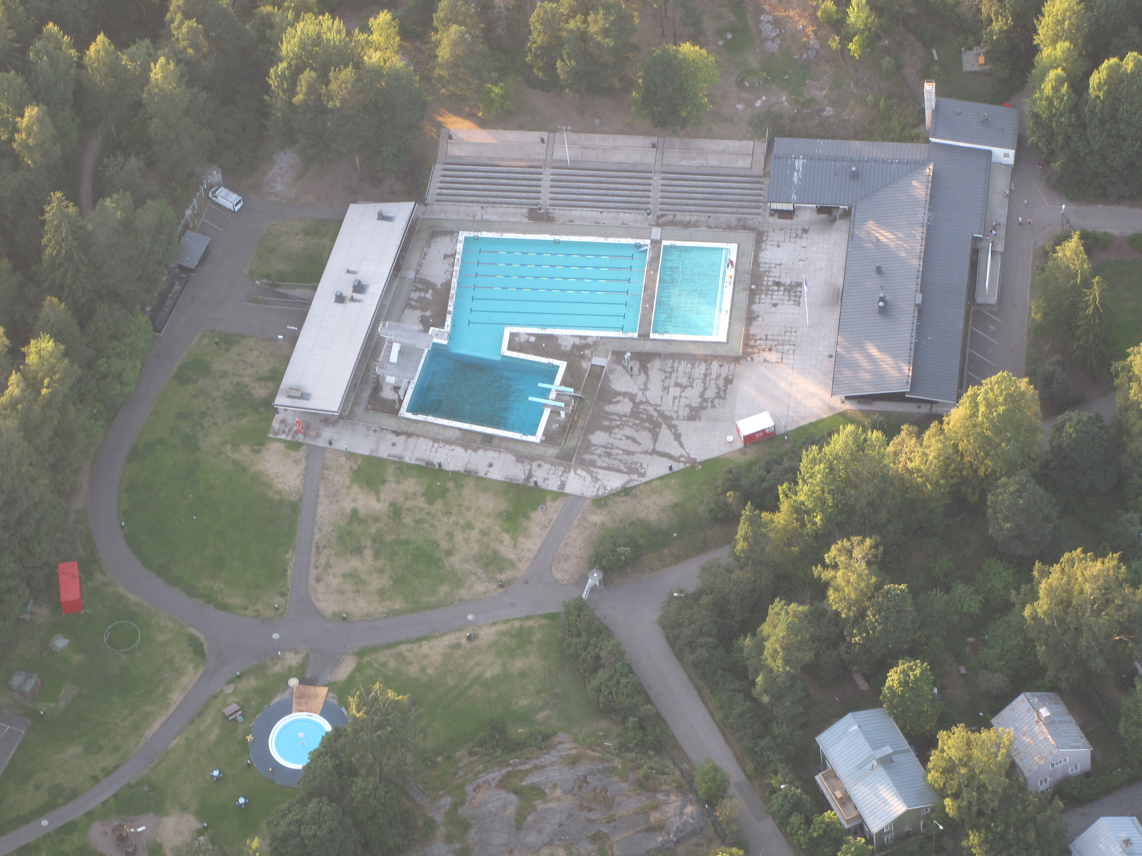 Kumpula outdoor swimming pool photographed from a hot air balloon.